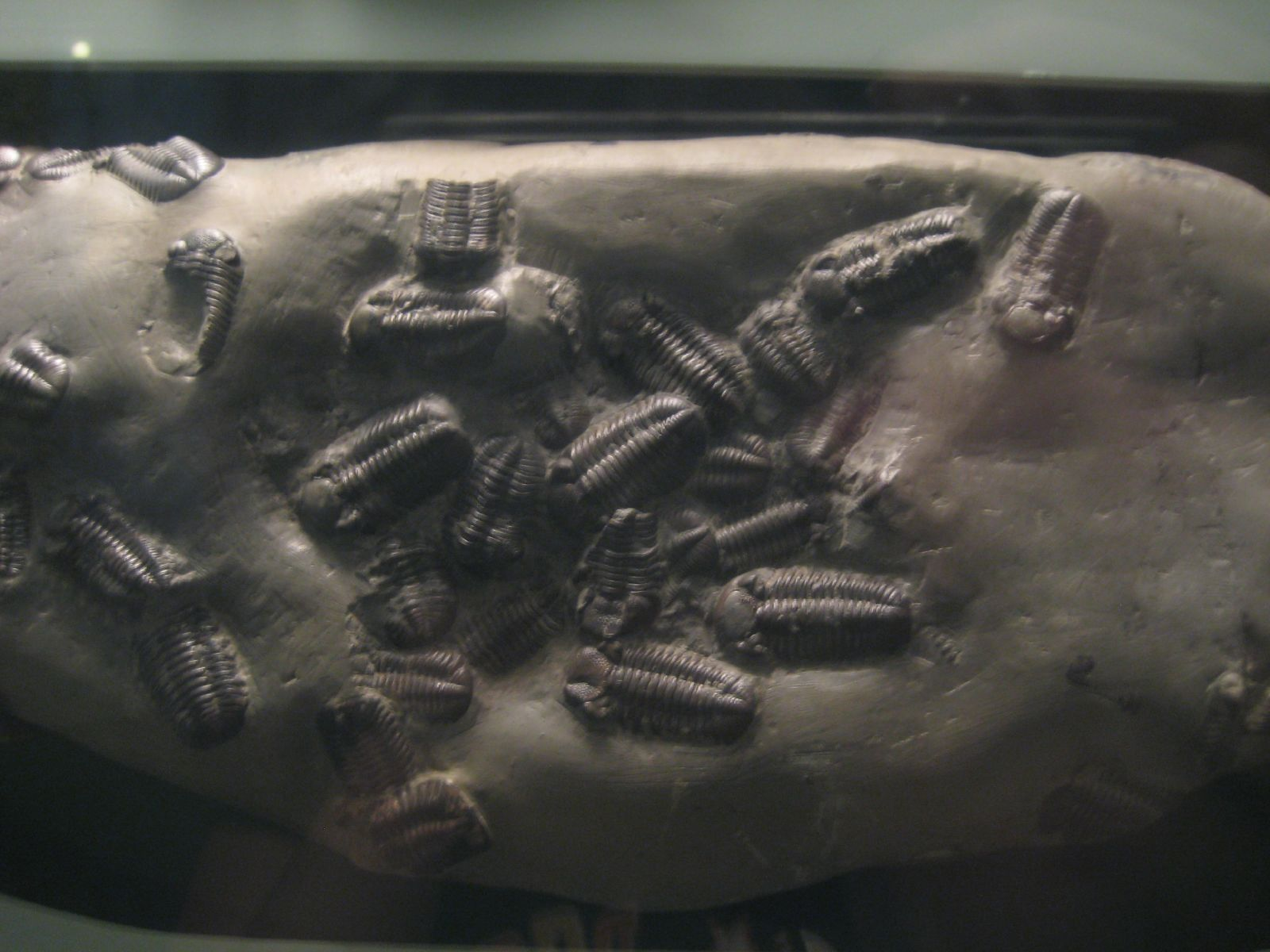 Mass of Phacops rana 365 million years old, Middle Devonian